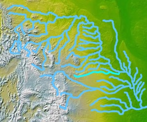 Niobrara River © 2004 Matthew Trump